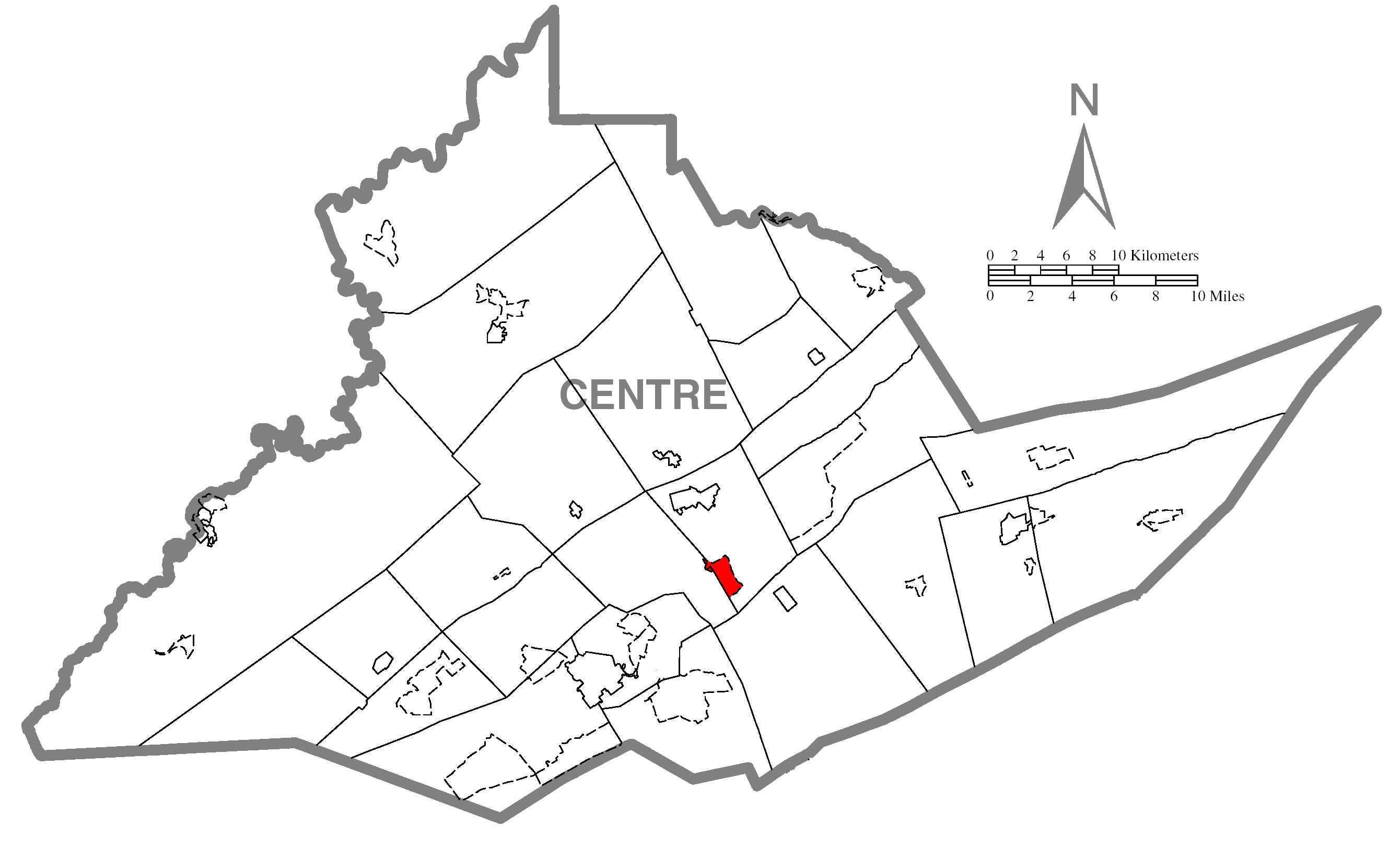 A map of Centre County showing Pleasant Gap, Pennsylvania (alternate) highlighted on the map.